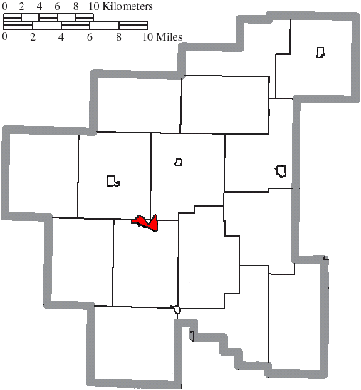 Map of the municipal and township boundaries of Noble County, Ohio, United States, as of the 2000 census, with the location of the village of Caldwell highlighted. Township borders are shown only in unincorporated areas in order to differentiate incorporated and unincorporated areas more clearly.